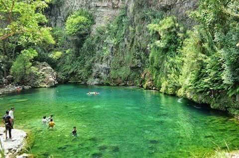 Khandowa Lake Good Chakwal Punab Pakistan